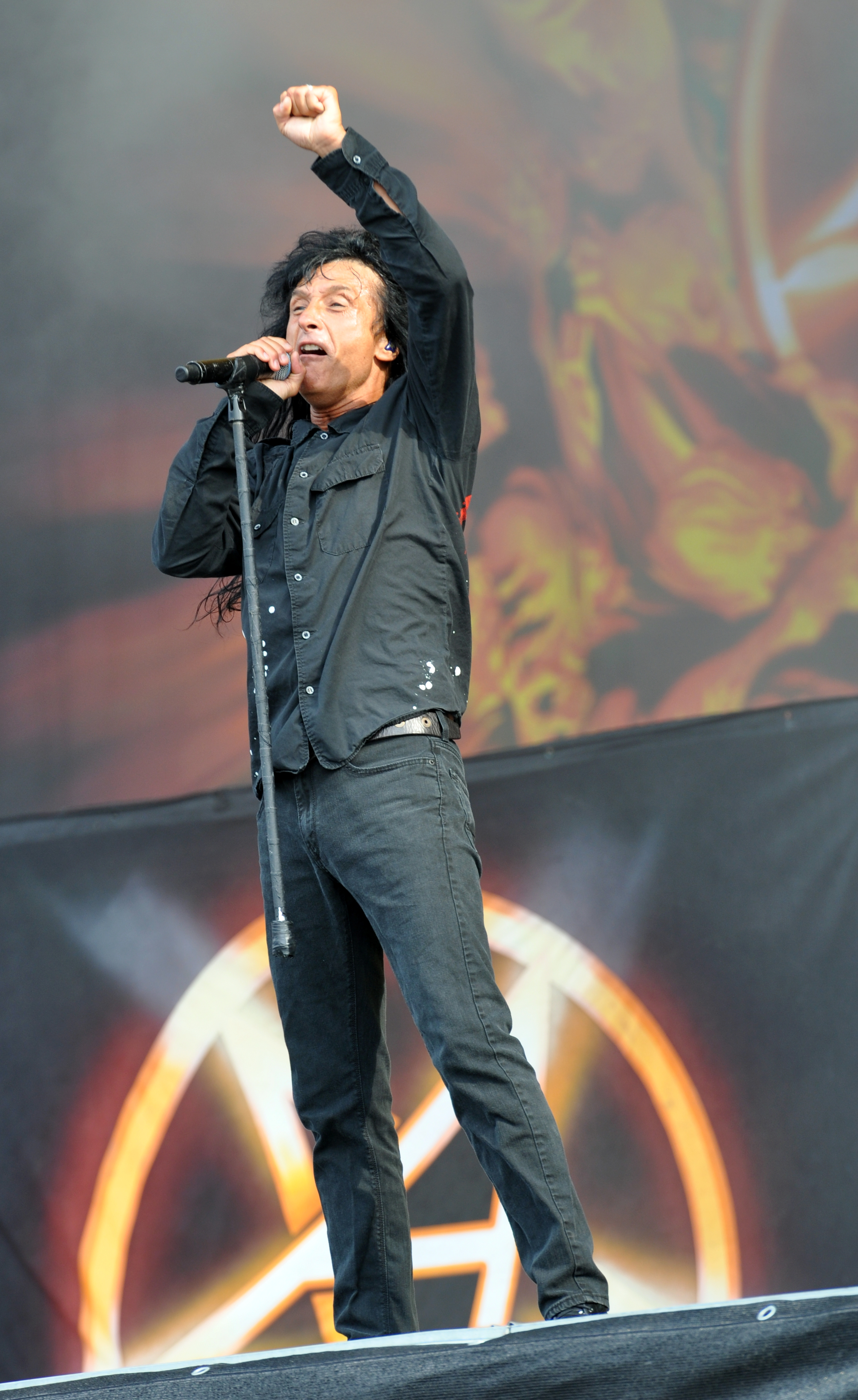 Anthrax at Wacken Open Air 2013